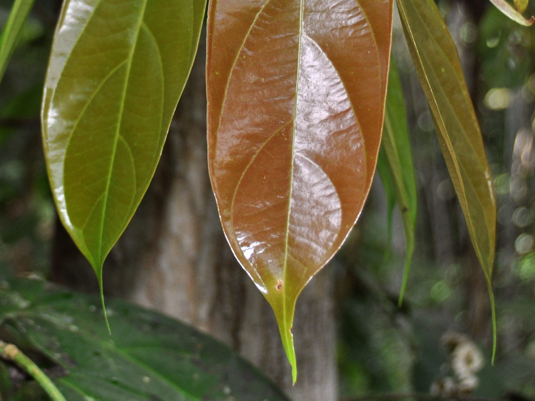 Drip tip (acumen) of Scorodocarpus borneensis leaves; from Jambi, Sumatra, Indonesia.